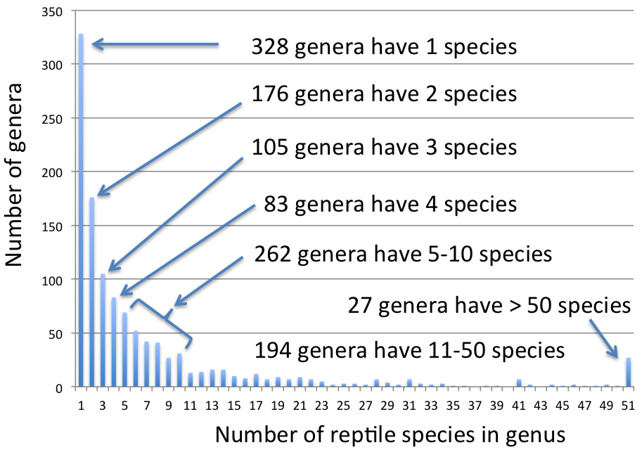 The number of reptile genera with a given number of species. An explanation is given in the figure.